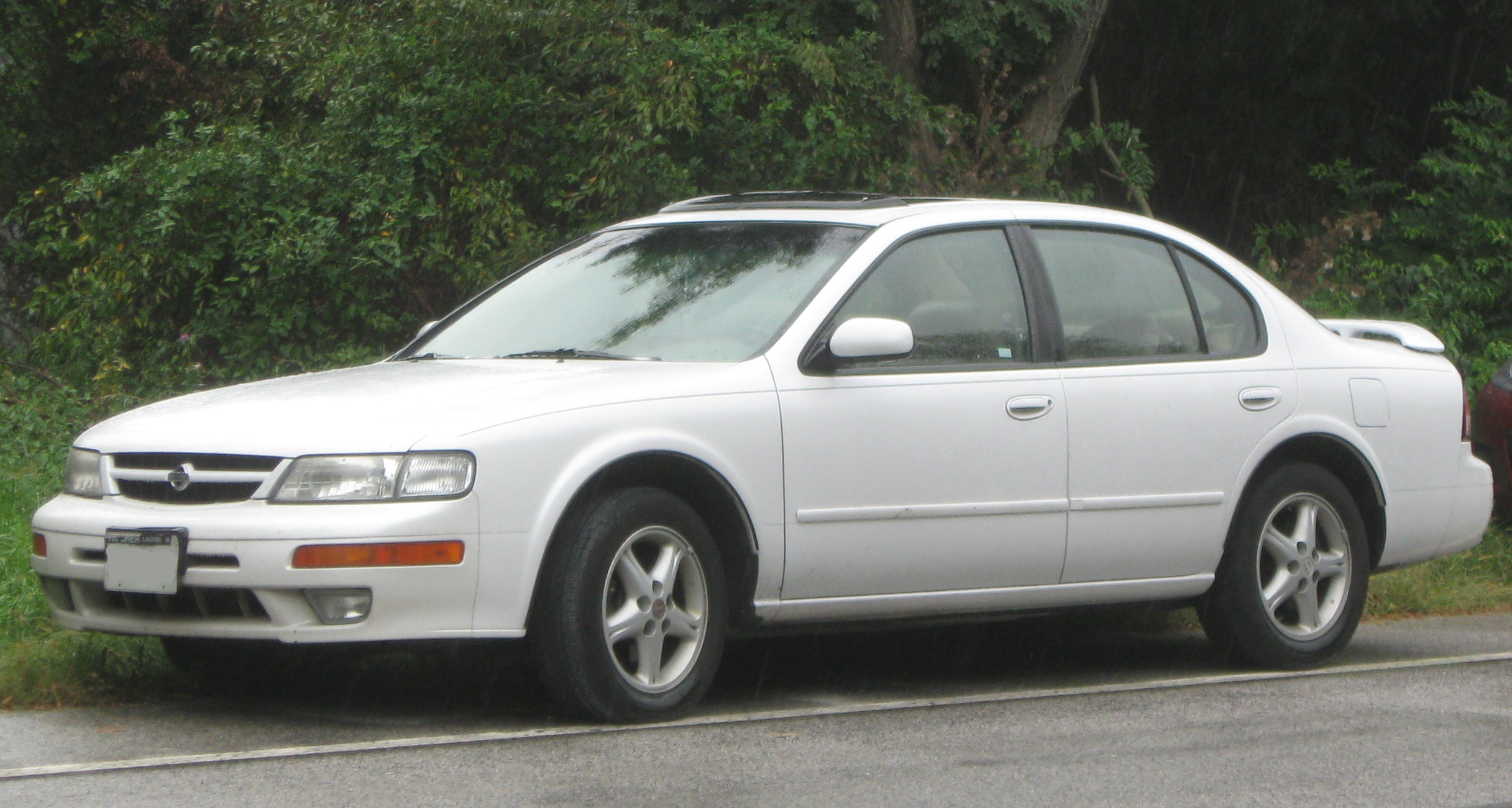 1997-1999 Nissan Maxima photographed in College Park, Maryland, USA.